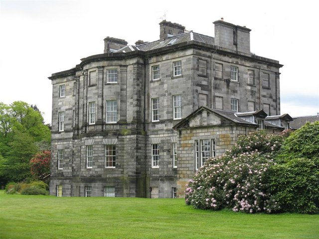 Newliston, the house from the north west A Robert Adam house, one of his last, completed in 1792 shortly after his death. The wings were added in 1845. It replaced an earlier house, of which there is no trace. A private home open, with the extensive grounds, on Garden Open Days. The original owners were the Dundas family. The last Dundas of Newliston, Elizabeth, married Sir John Dalrymple [1669] who became the first Earl of Stair. The second Earl became British Ambassador to the Court of Versailles, retired to Newliston and from 1722-1744 did the landscaping and treeplanting, so there are some fine trees on the estate.